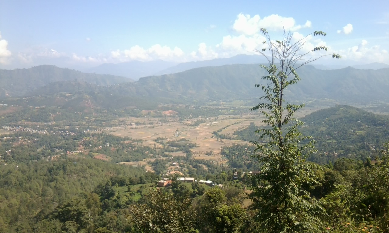 Panchkhal Valley